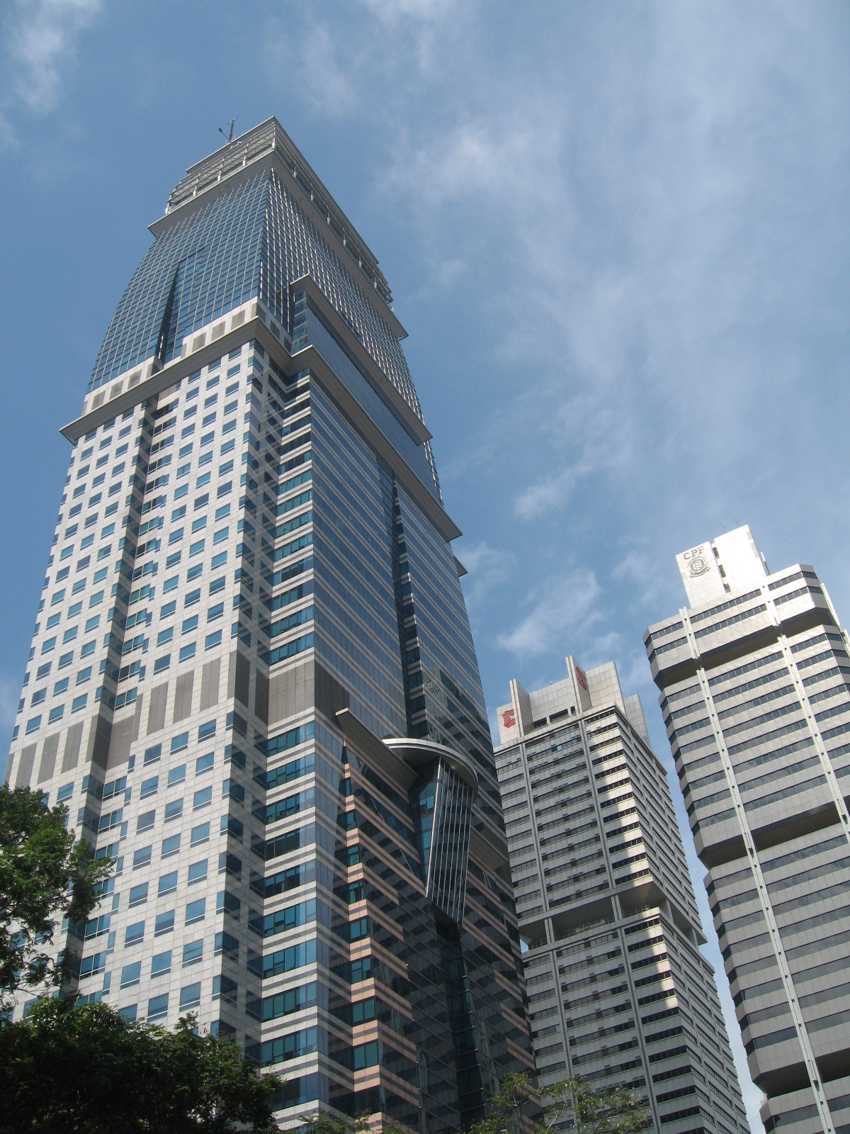 Capital Tower, DBS Tower 1 and CPF Building.